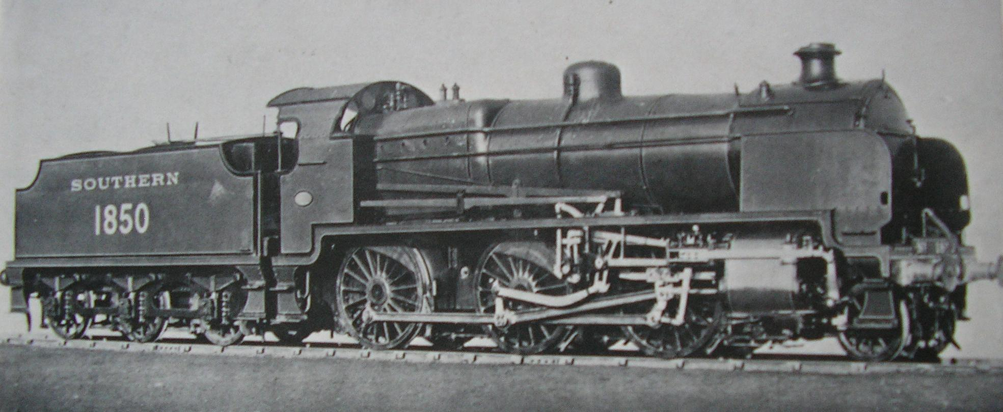 An image of SECR N class No. 1850 with experimental J. T. Marshall valve gear from the Ian Allan Ltd. collection, now under the custodianship of the British National Railway Museum, with which the copyright currently rests. The museum is a non-departmental public body sponsored by the Department for Culture. The image was taken c. February 1934 at Eastleigh Works. (Source: Haresnape, Brian: Maunsell Locomotives: A Pictorial History (Hinckley: Ian Allan, 1963), p. 28)